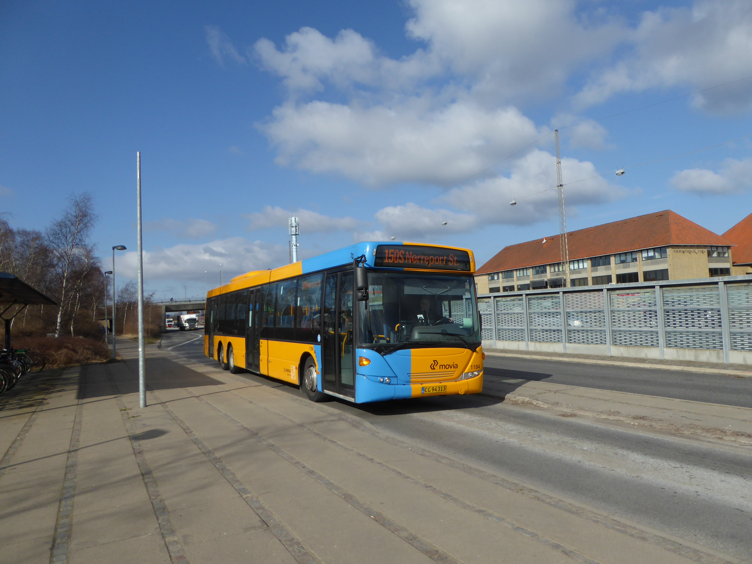 Movia bus line 150S on Helsingørmotorvejen at Nærum Station north of Copenhagen.